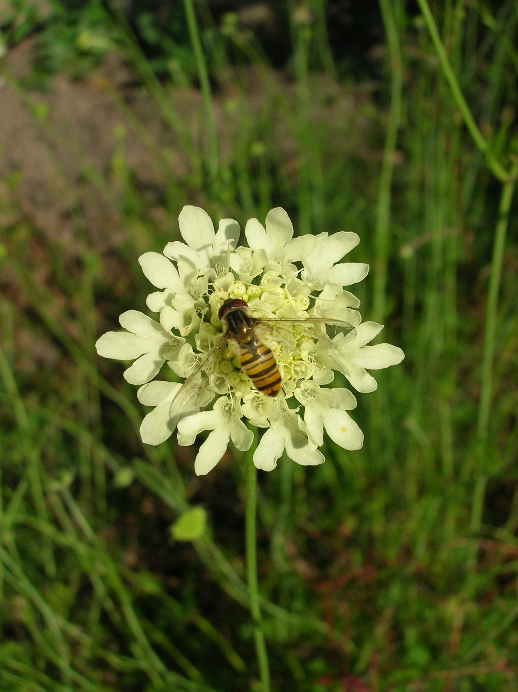 Scabiosa ochroleuca, photo was taken at the Ecological-Botanical Gardens in Bayreuth, Germany